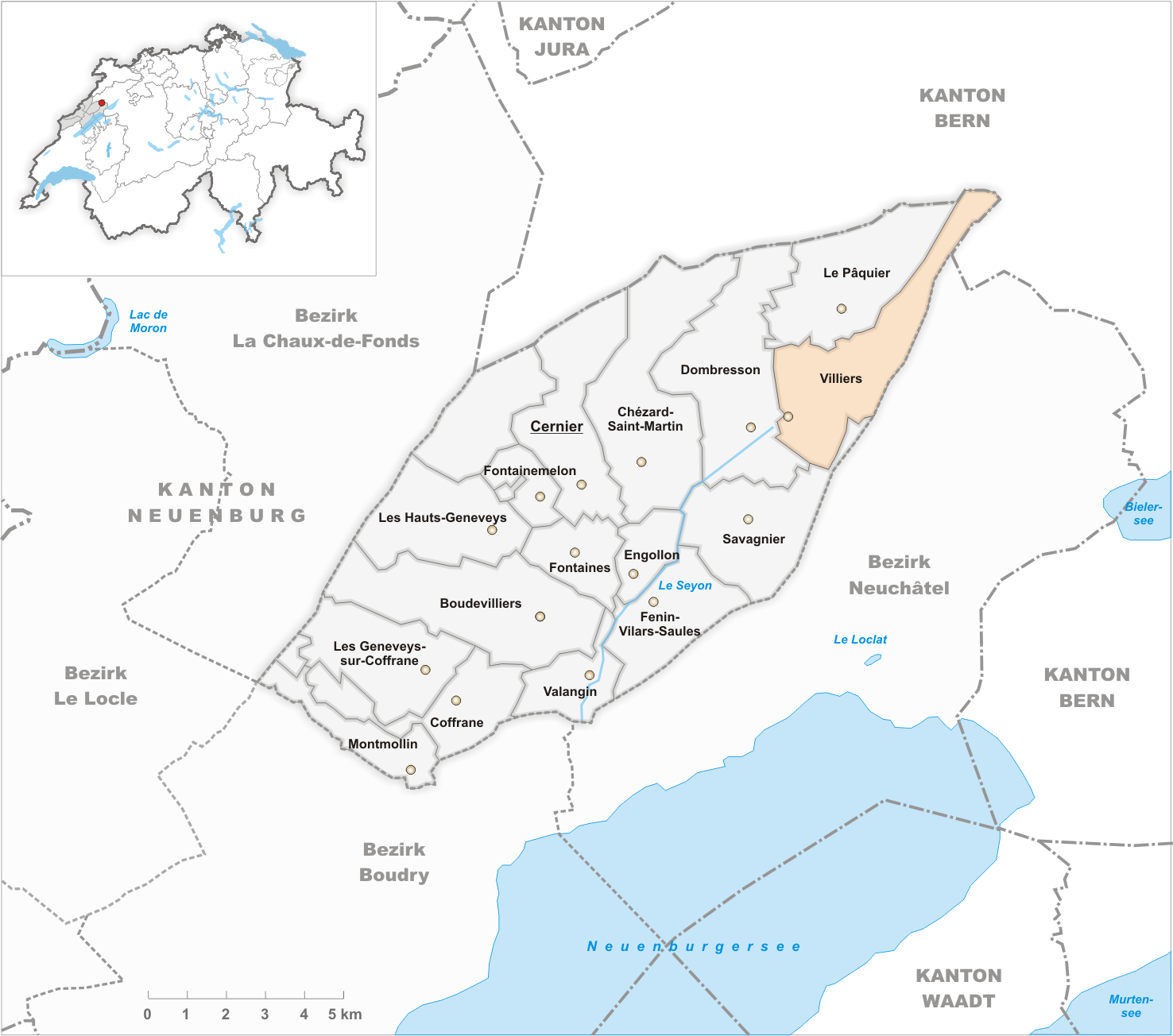 Municipality Villiers